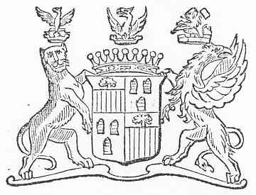 scan of a photocopy from 1851 edition of Burke's Peerage (Foreign Titles section)Rodolph 12:56, 27 February 2007 (UTC)